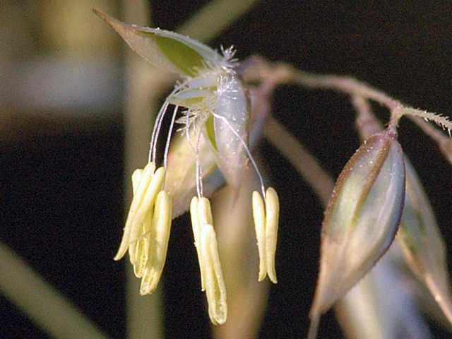 Picture taken in Commanster, Belgian High Ardennes. Species: Holcus mollis